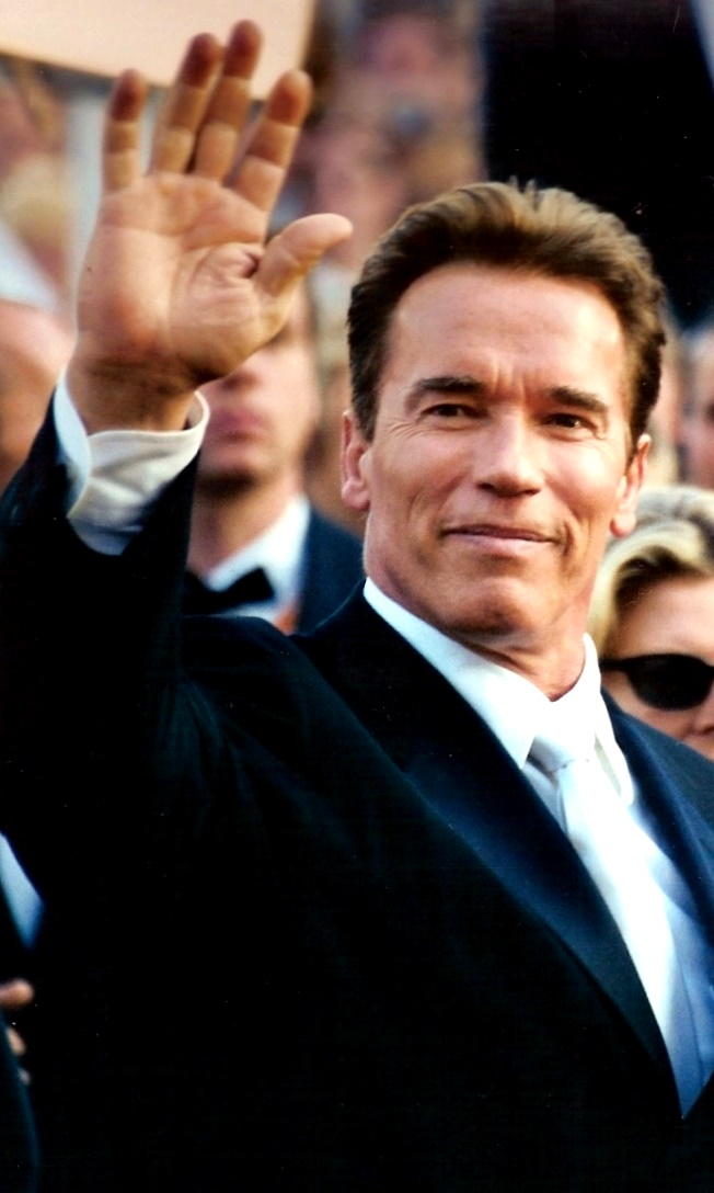 Arnold Schwarzenegger, 2003 Cannes film festival